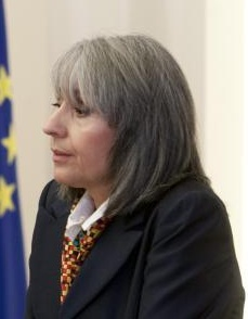 Margarita Popova